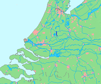 Location of a waterway (river/canal) in the Netherlends